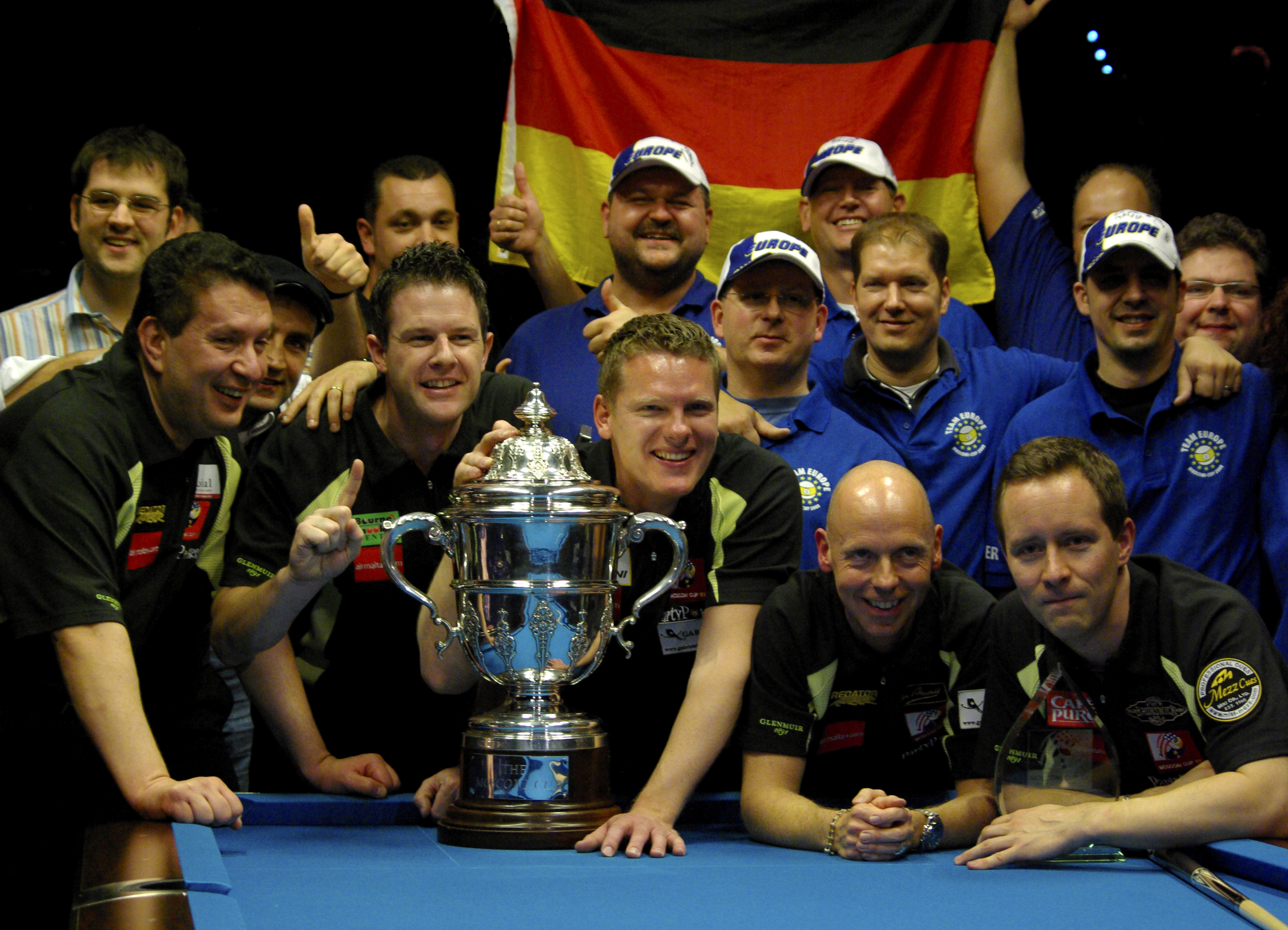 Winning European team at the Mosconi Cup 2008 in Malta.